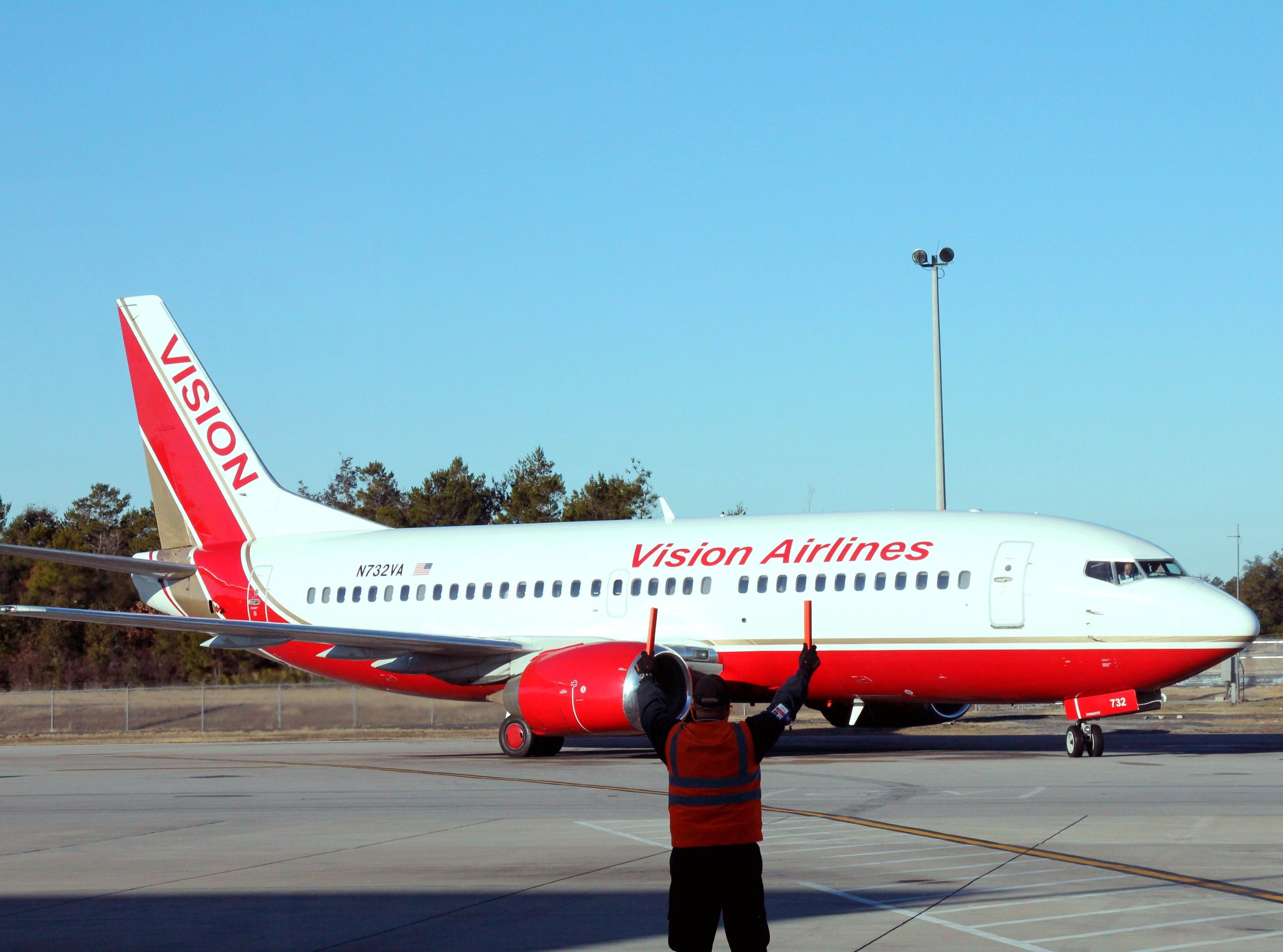 On our way home from Florida ready to board the plane!